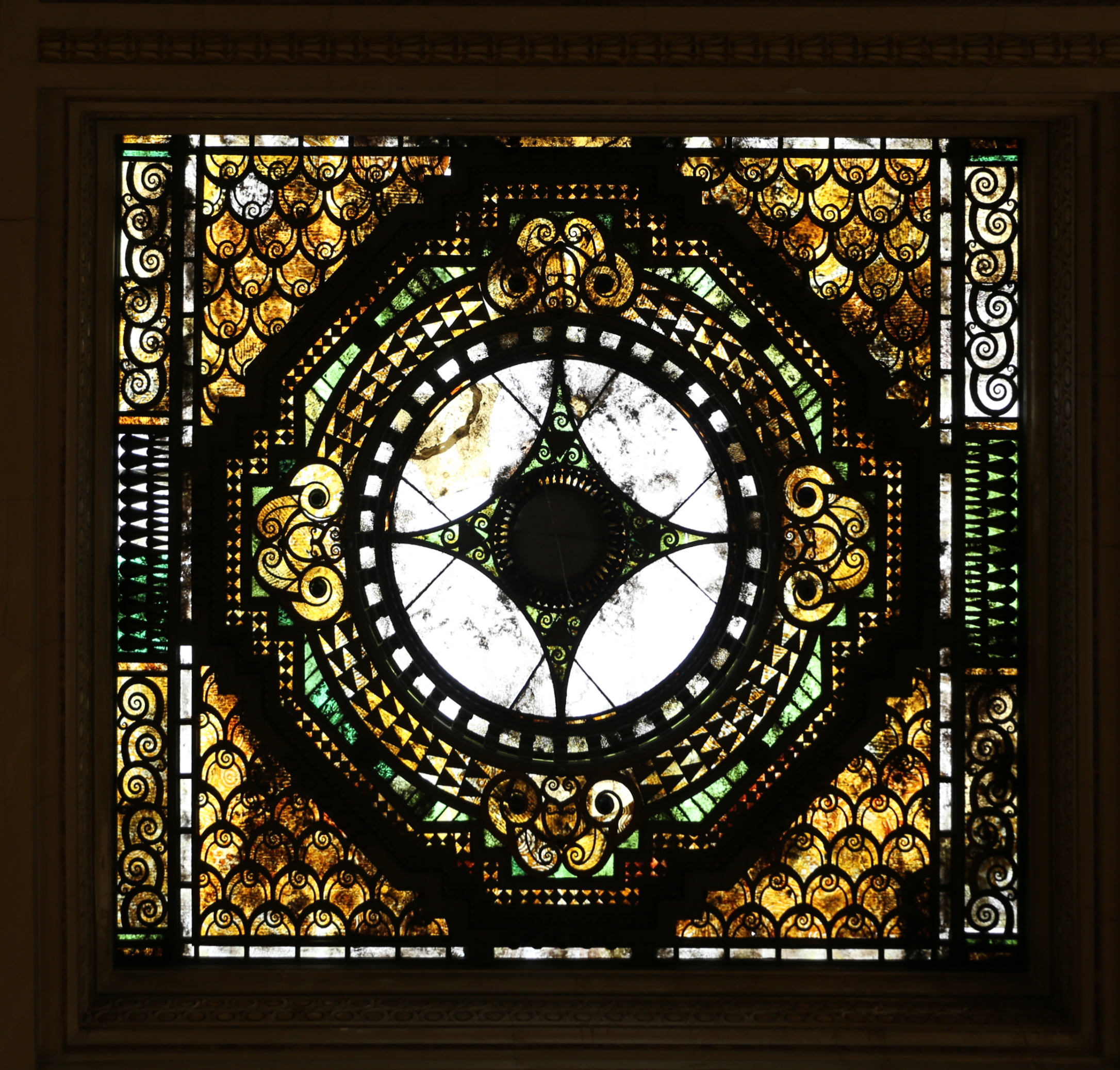 Terme Berzieri - Interior